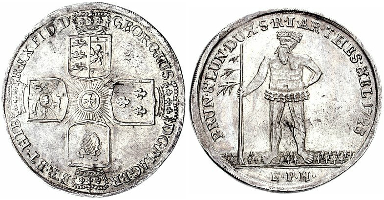 Germany, Braunschweig-Lüneburg Georg Ludwig (George I of Great Britain). Duke, Elector of Hannover, and King of Great Britain, 1714-1727. AR Thaler (46mm, 28.95 g, 4h). Zellerfeld mint; Ernst Peter Hecht, mintmaster. Dated 1723. BRUN • & LUN • DUX • S • R • I • AR • THES • & EL • 1723, wildman standing facing, holding tree in right hand, E.P.H. in exergue REX • FID • D • GEORGIUS D • G • MAG • BR • FR • ET • HIB •, crowned cruciform coats of arms, cross in center. Welter 2231; Knyphausen -; Davenport 2077; KM 134.